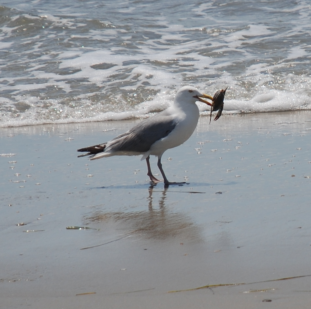 Birds of Core Banks, North Carolina: Herring Gull (Larus smithsonianus) caught a crab